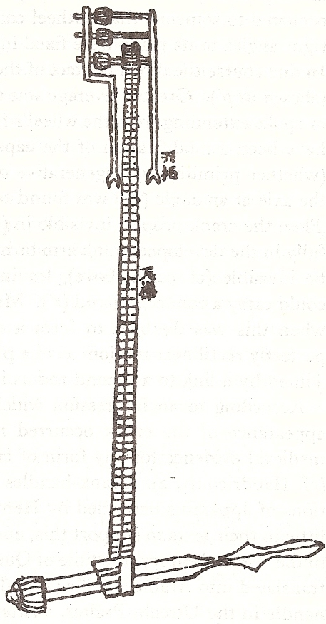 The oldest known illustration of an endless power-transmitting chain drive. This was illustrated in 1092, during the Song Dynasty, by the Chinese engineer Su Song in his book Xinyi Xiangfayao. It was called the "celestial ladder", and was used for coupling the main driving shaft of his clock tower to the armillary sphere gear box (which was mounted at the top of the tower in Kaifeng).